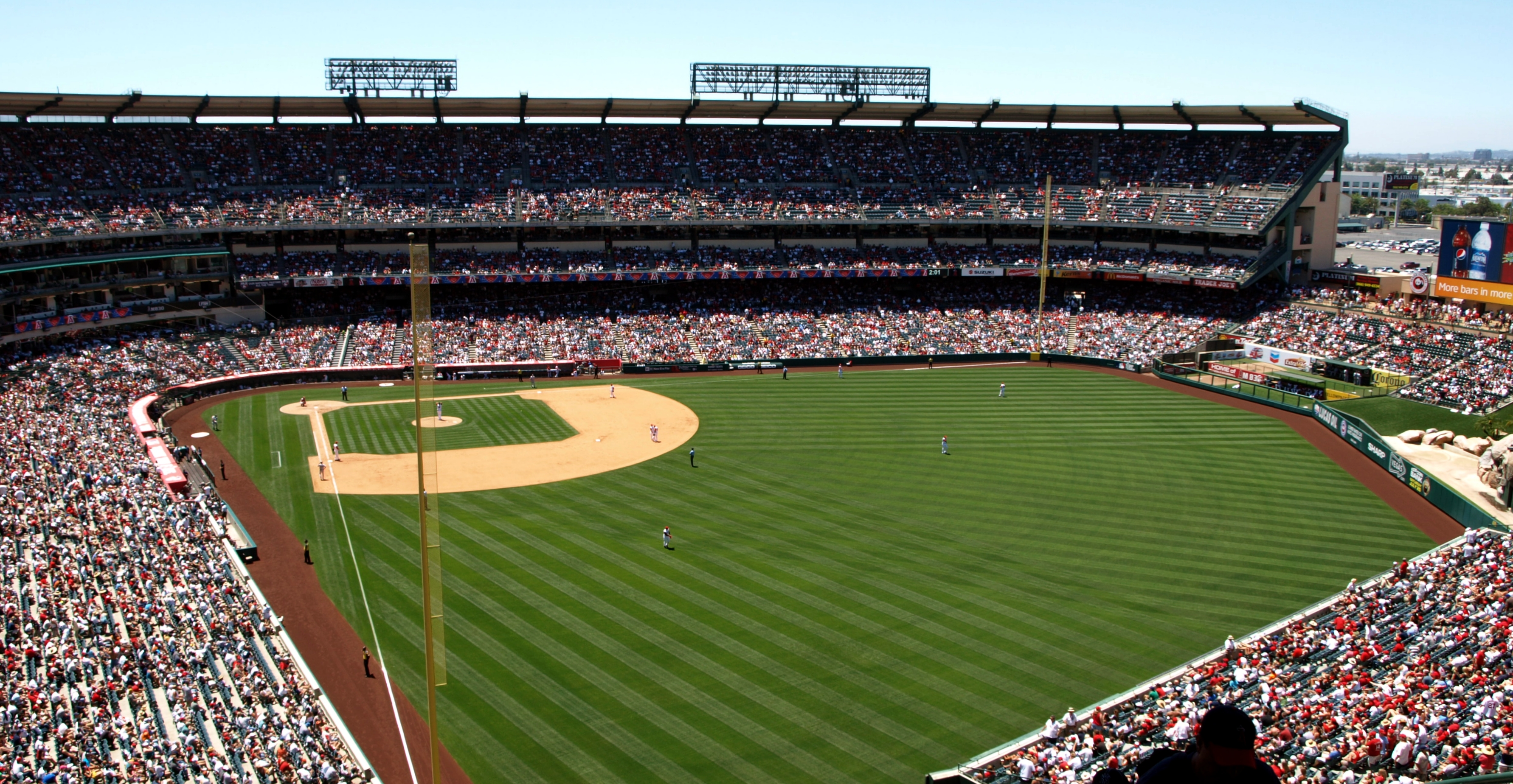 Angel Stadium of Anaheim during a home game against the New York Yankees as seen from the upper deck seating, view looking west. This photograph was taken with an Olympus E-510 DSLR camera and edited (for color balance, brightness/contrast and cropping) using ArcSoft Photostudio 5.5